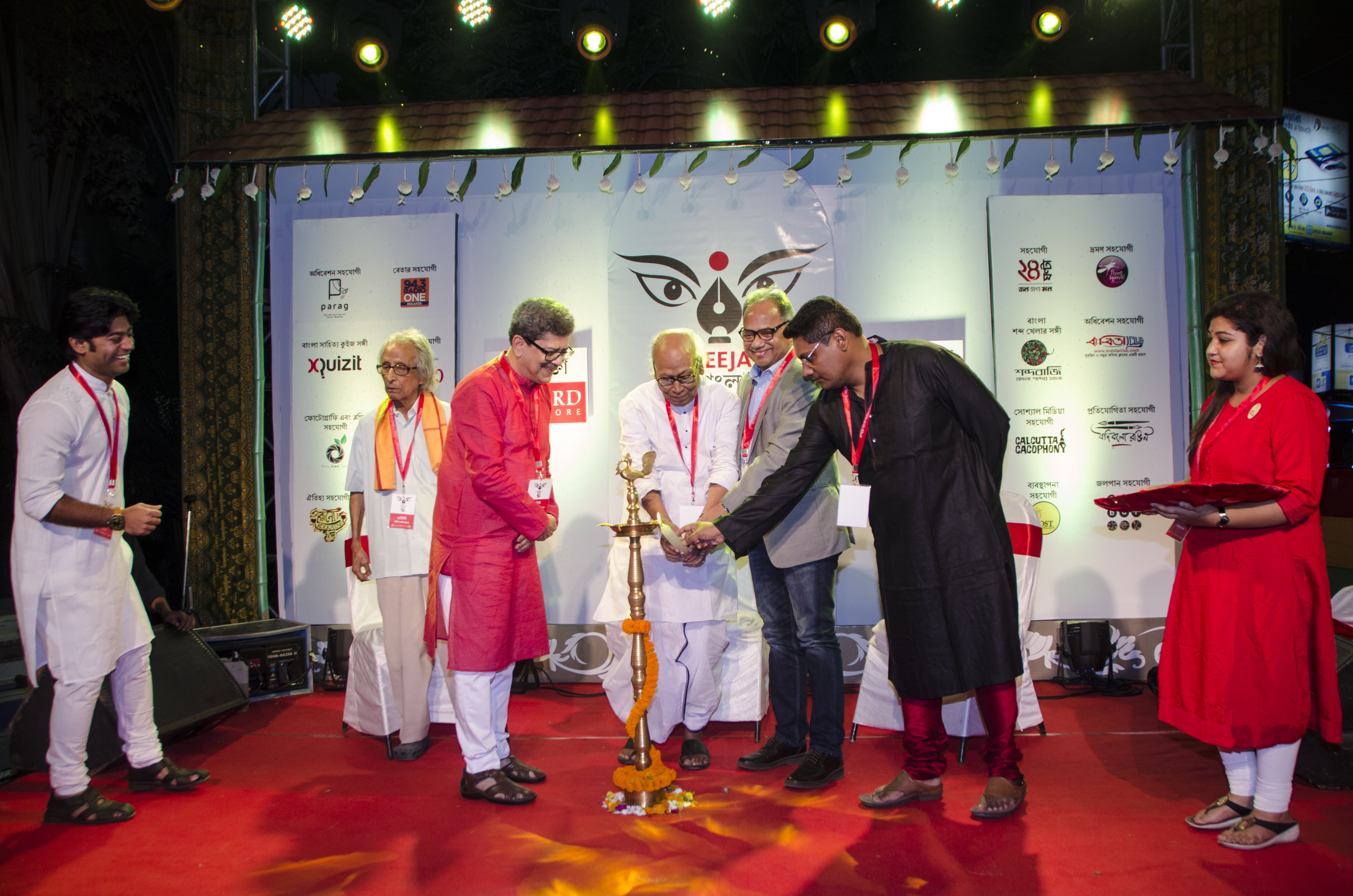 Apeejay Bangla Sahitya Utsob 2017 Inauguration Ceremony